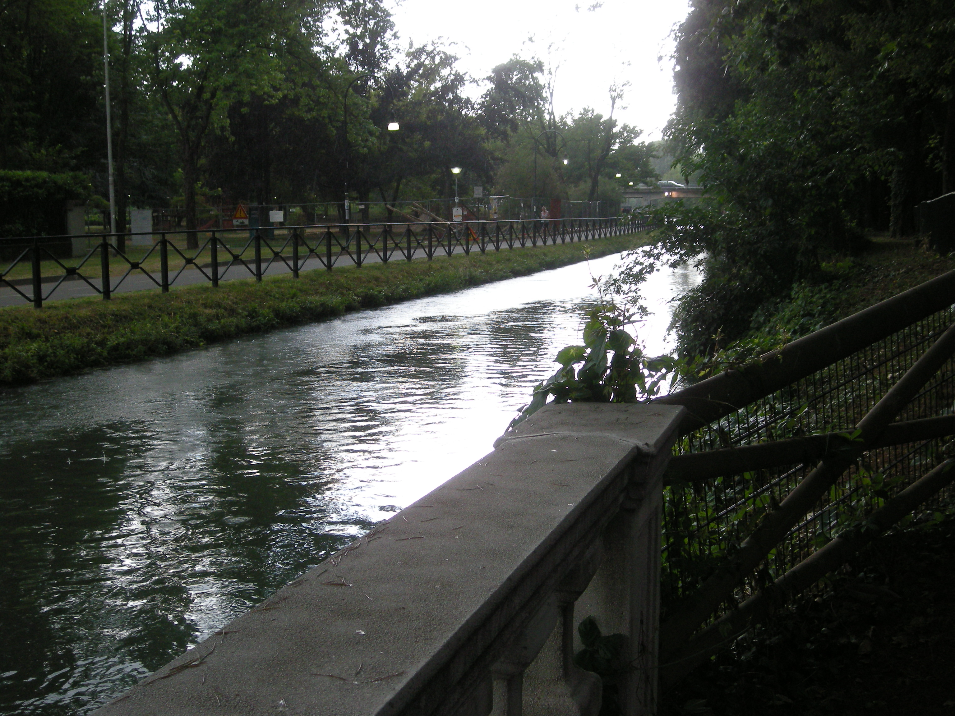 Cernusco sul Naviglio (Italy) - Naviglio Martesana